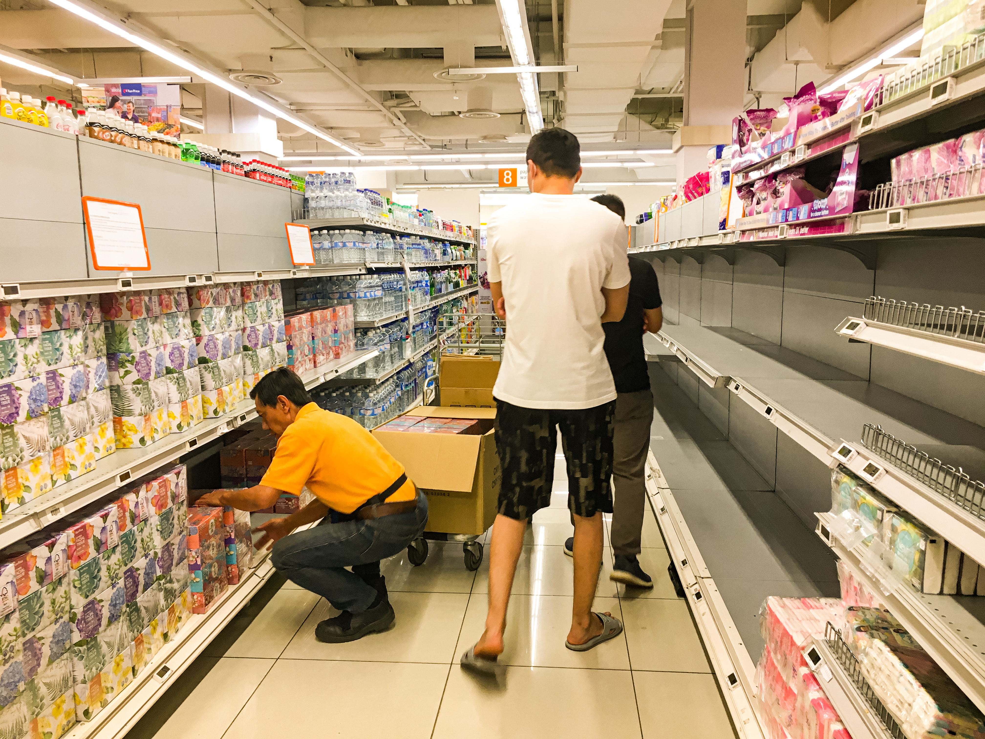 Ntuc super store, Singapore - Singaporean clear out the supermarket shelves due to the Coronavirus: Singapore raises outbreak alert to Orange. Daily products such as toilet paper, rice, bread, noodle and vegetables are all sold out. My very first time to see the Singaporean gone into the panic mode of storing goodies at home